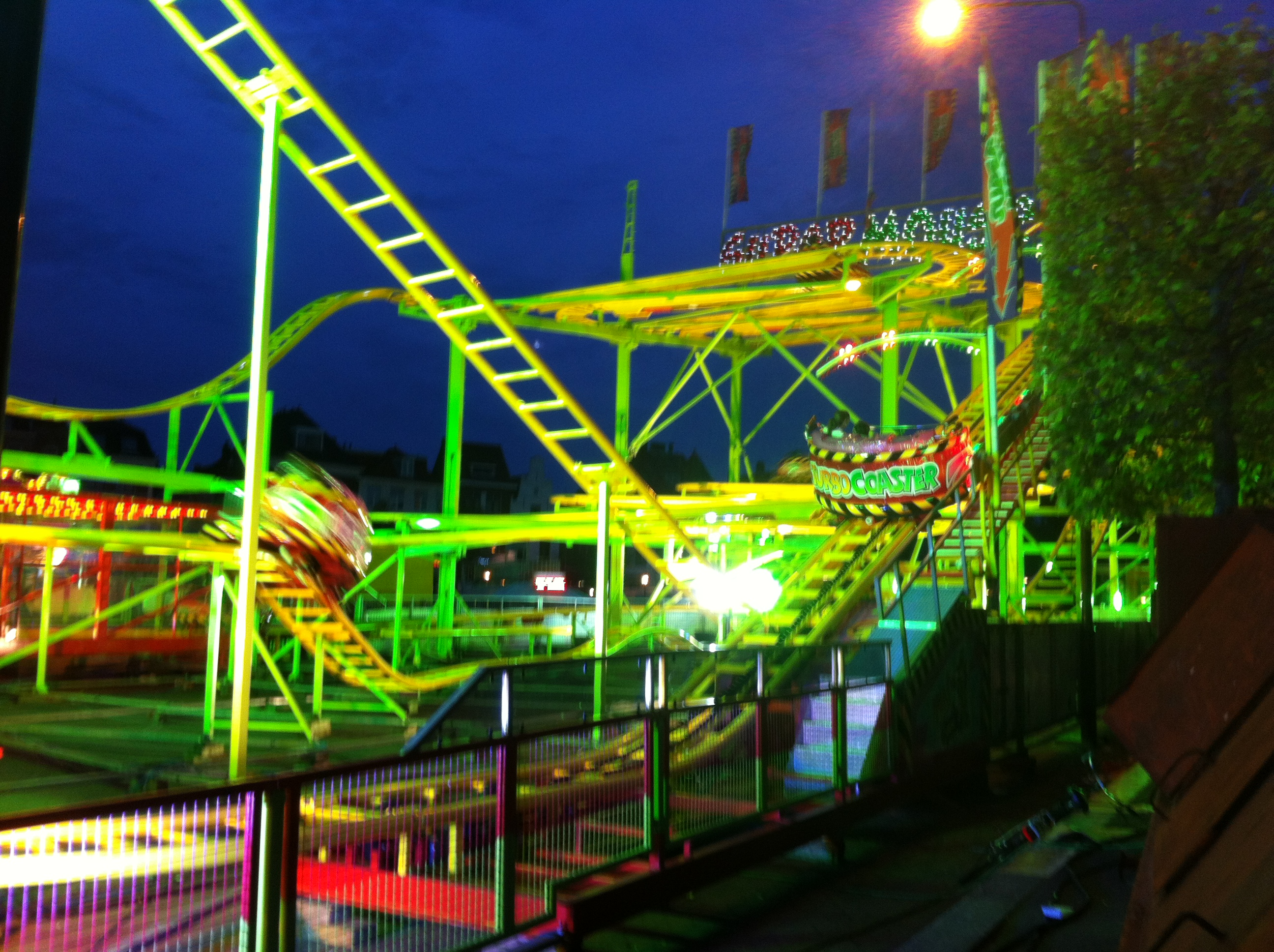 A rollercoaster ride in the centre of Leiden during the 3 October Festival